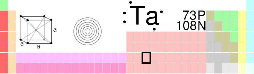 Image by GreatPatton and released under terms of the GNU FDL